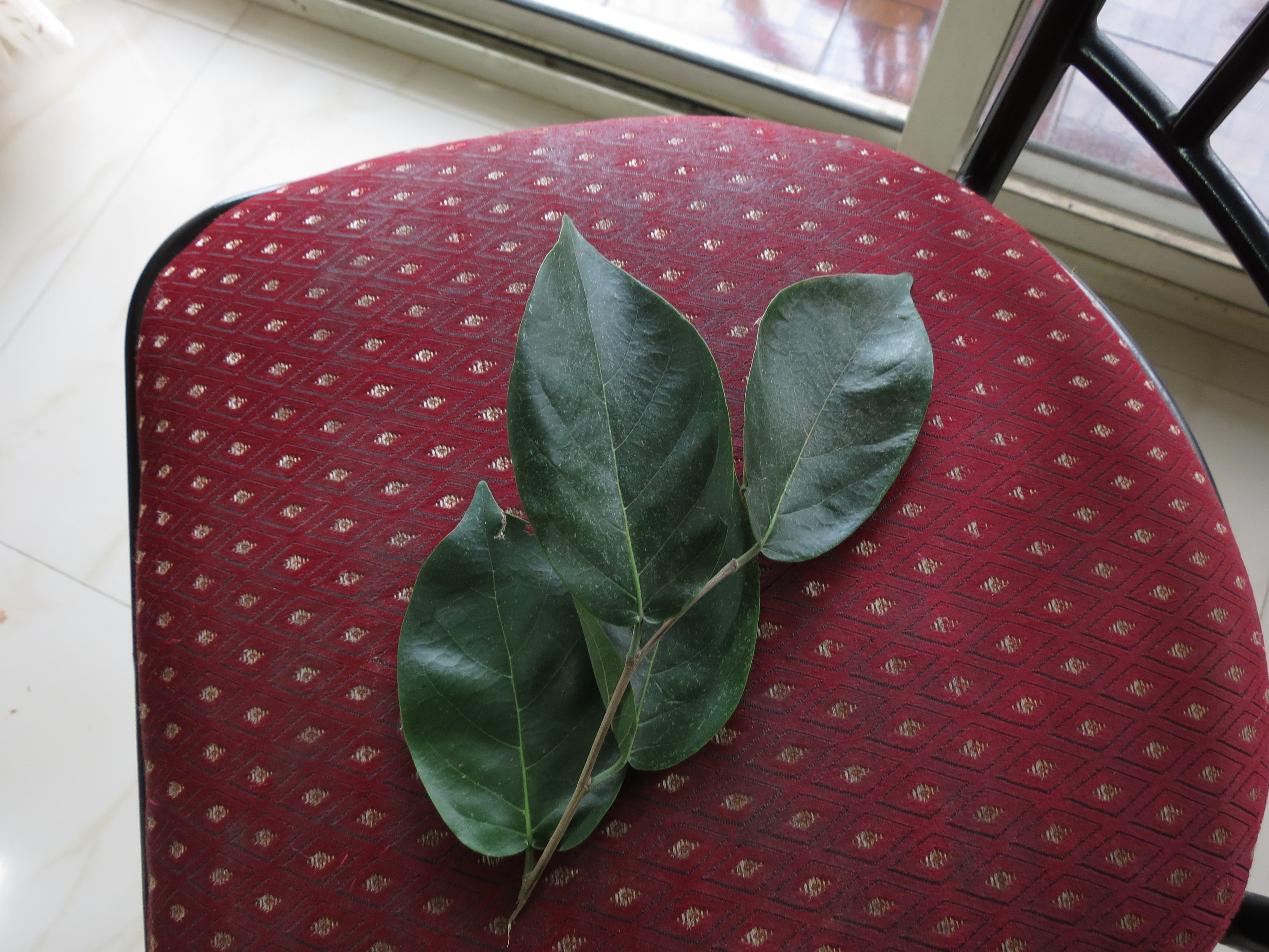 Indian Elm Tree (Holoptelia integrifolia) as a lane tree off sarjapur road near Bata showroom. 8th feb 2014